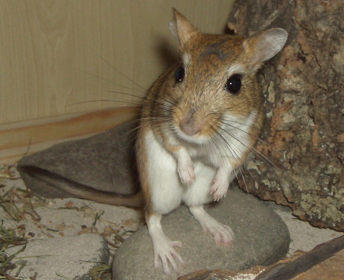 Persian jird, female, two and a half years old